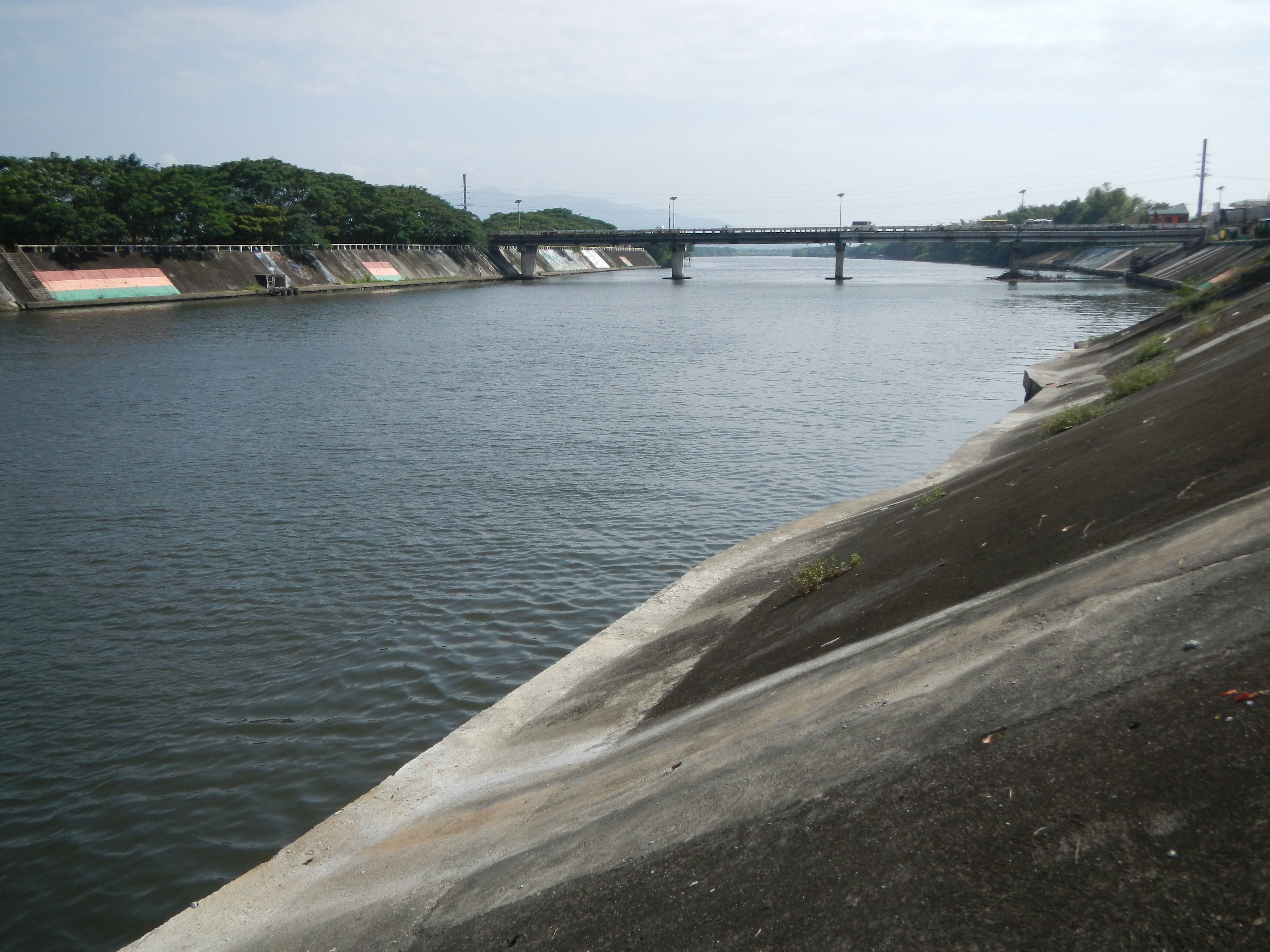 Upload Wizard -- (general description of landmarkds, town, church) - of - Calumpang River[1] P. Herrera St., Rizal Avenue, Poblacion, [2] Batangas City[3] located in Brgy. Cuta, Malitam, and Wawa, Batangas City - View of the Calumpang River from the Calumpang Bridge.